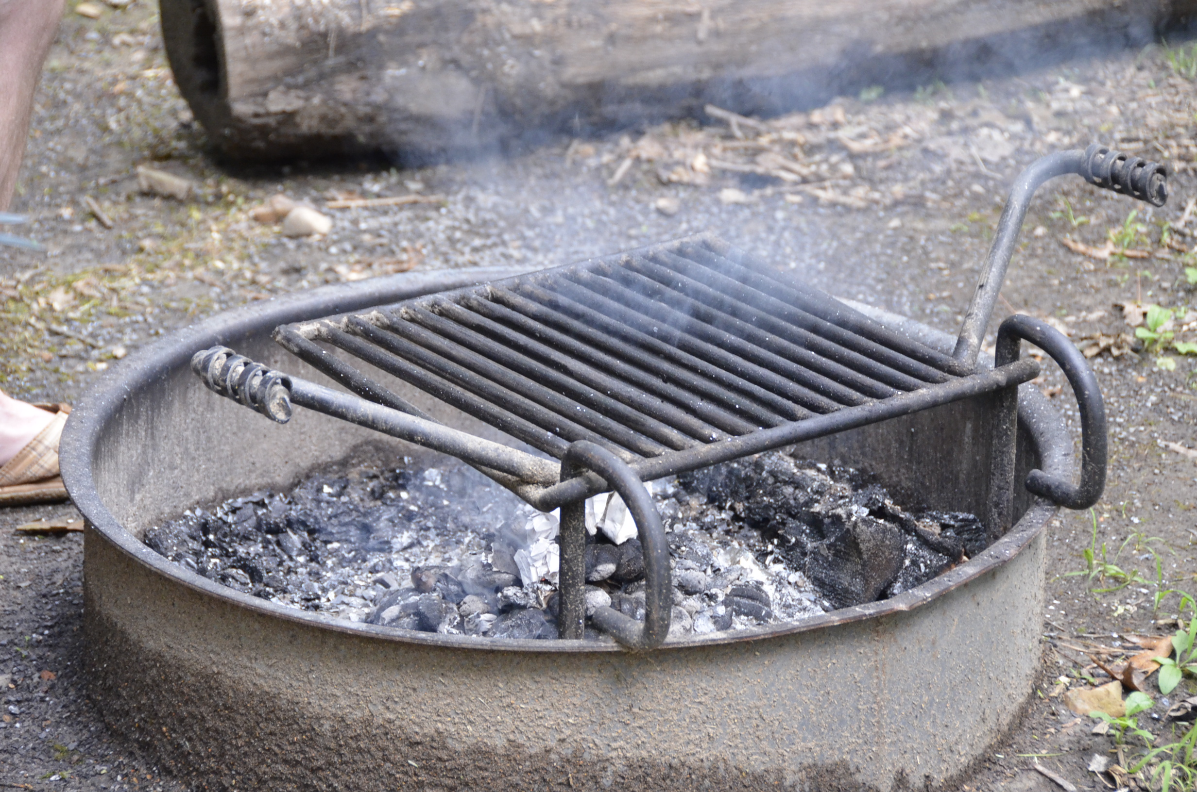 Uploaded by SA. Learn more about this state park here